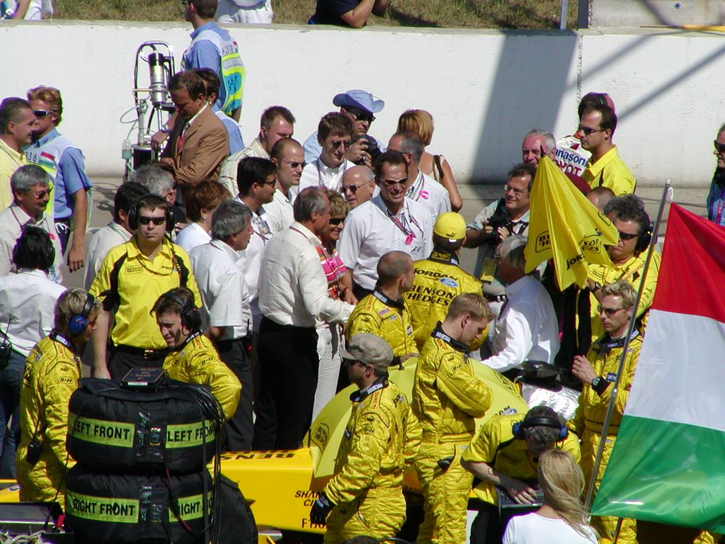 Jordan at the start grid at the 2003 Hungarian Grand Prix.